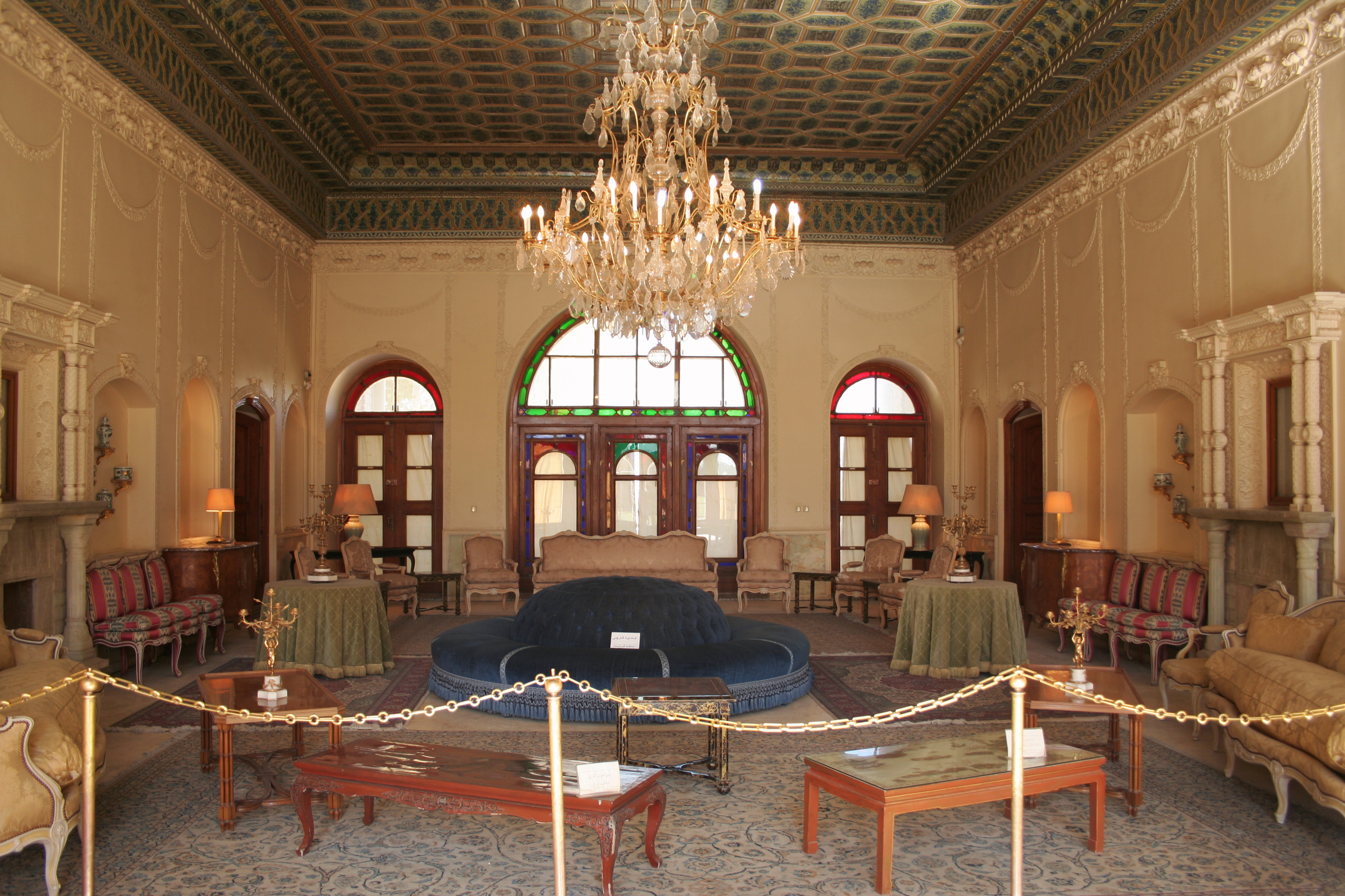 Afif Abād Garden at summer morning.